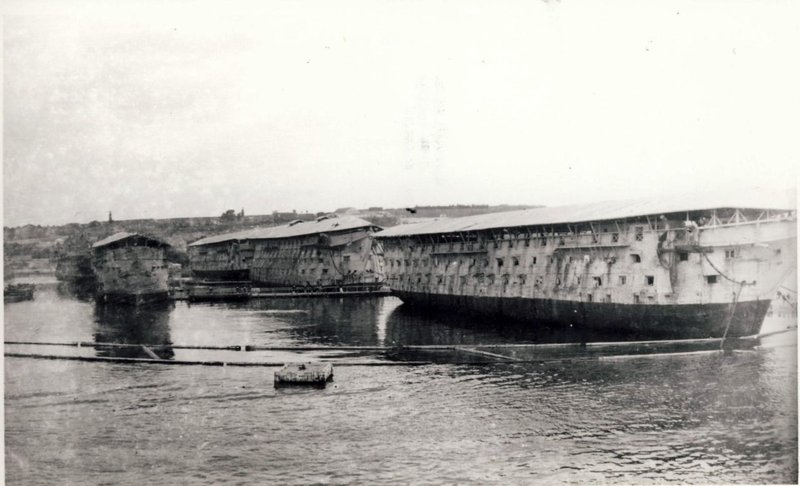 French ship Eylau (foreground). The ships behind might be Mars and Souverain.